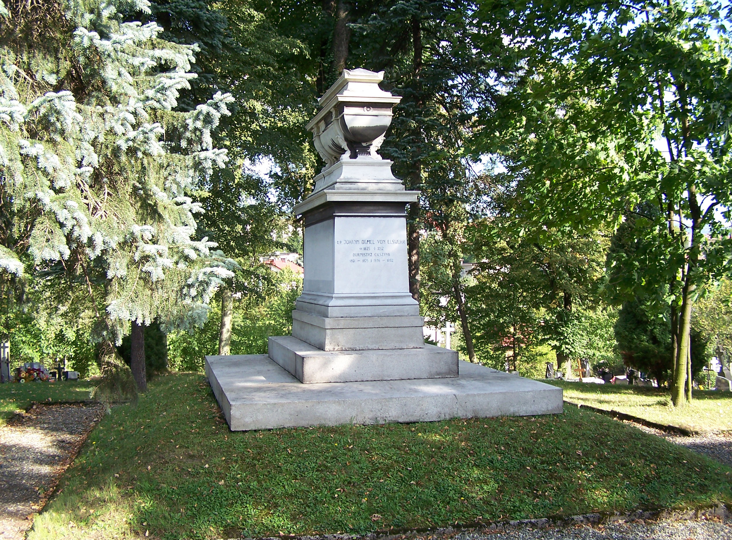 Grave of Johann Demel von Elswehr at the Communal Cemetery in Cieszyn, Poland